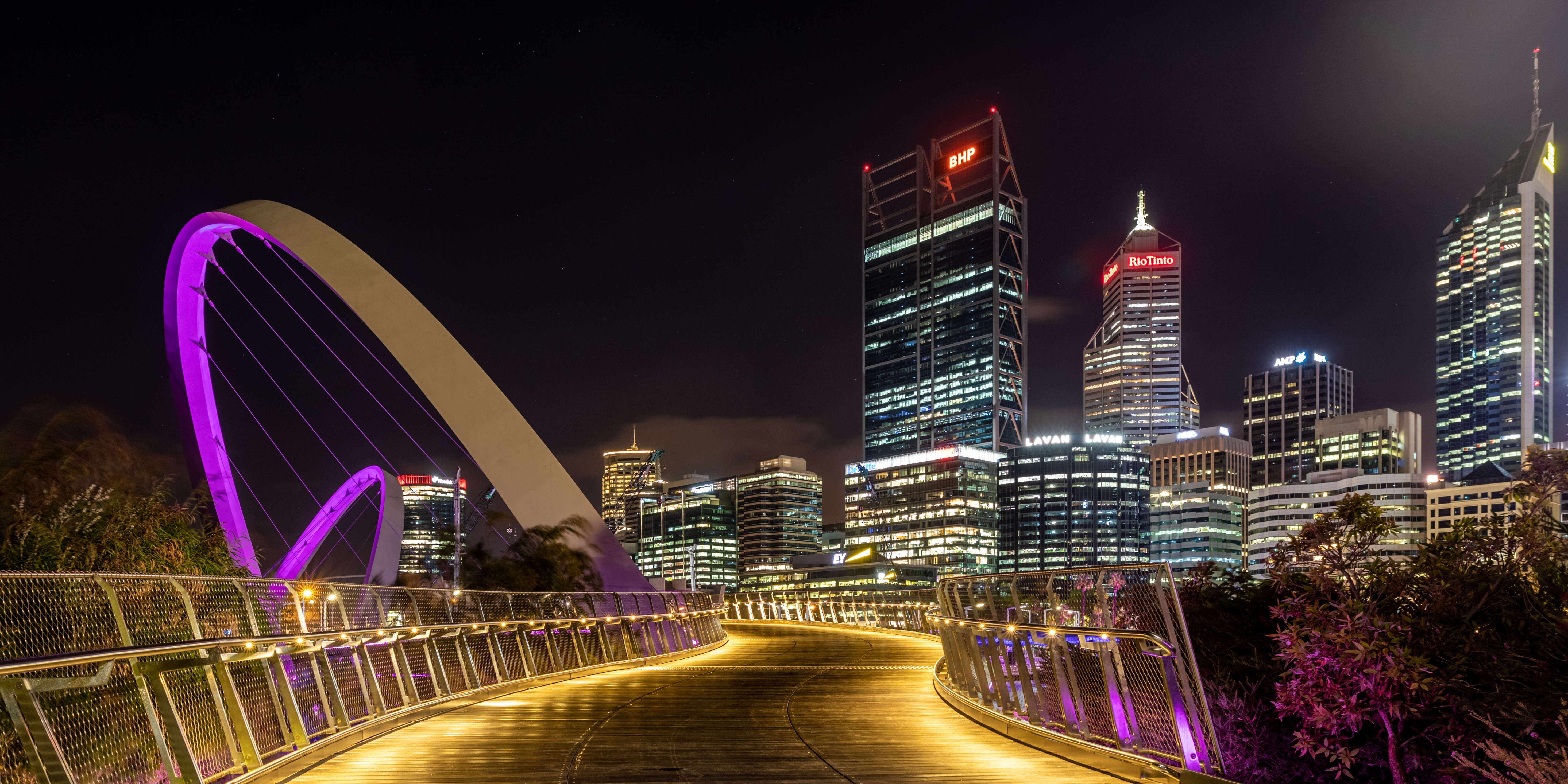 Elizabeth Quay Bridge, Perth, Western Australia, Australia